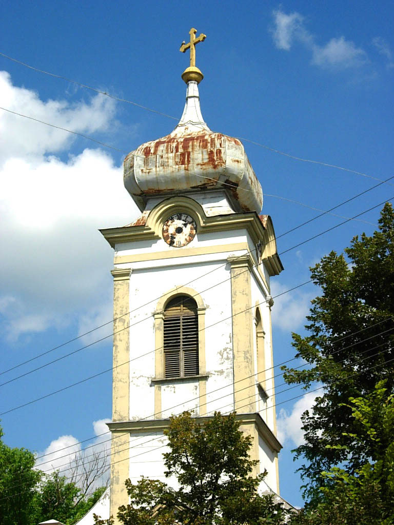 The Orthodox Church in Srpska Crnja.